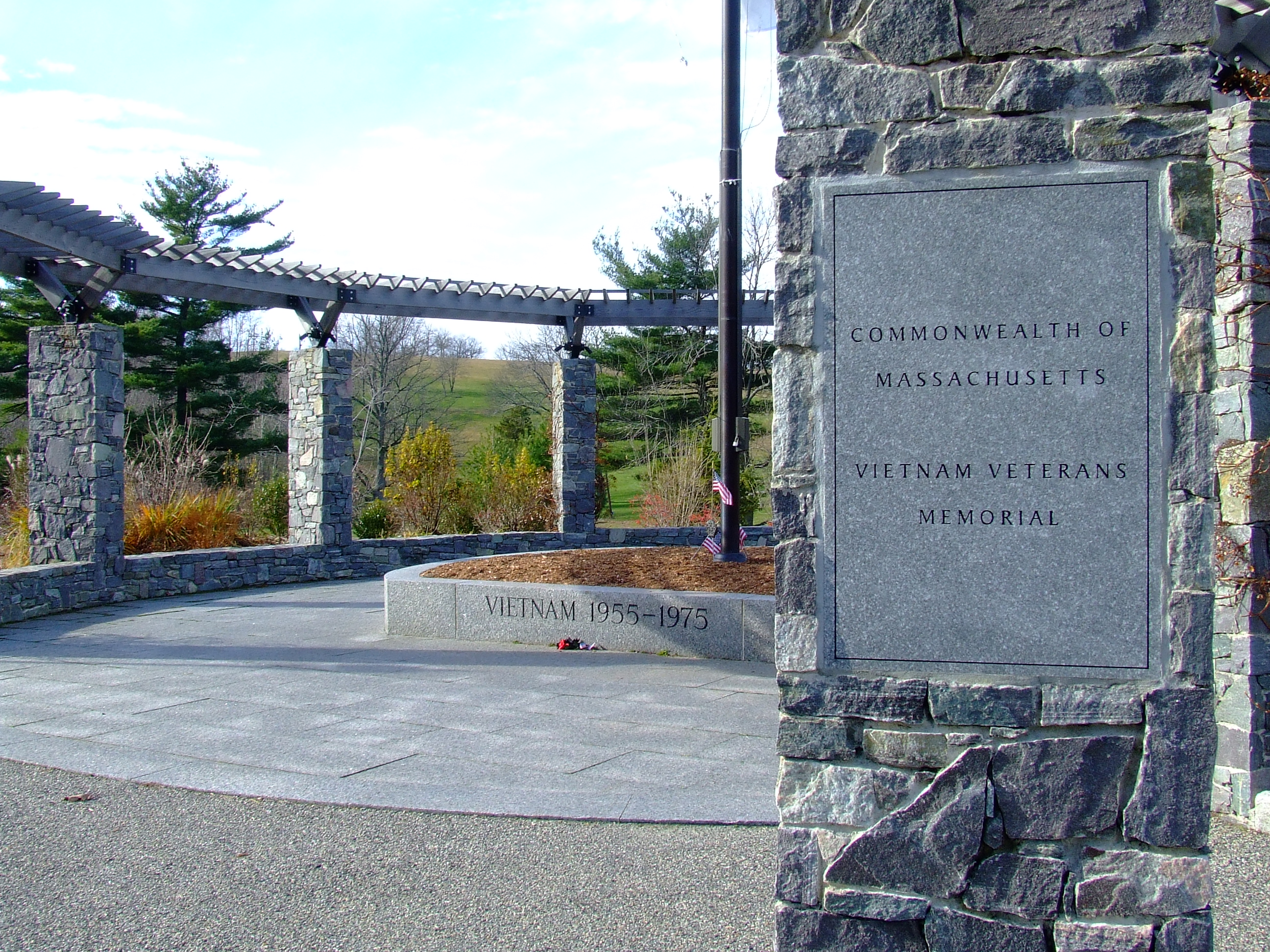 Massachusetts Vietnam Memorial, Worcester, MA; Flag pole area near entrance.